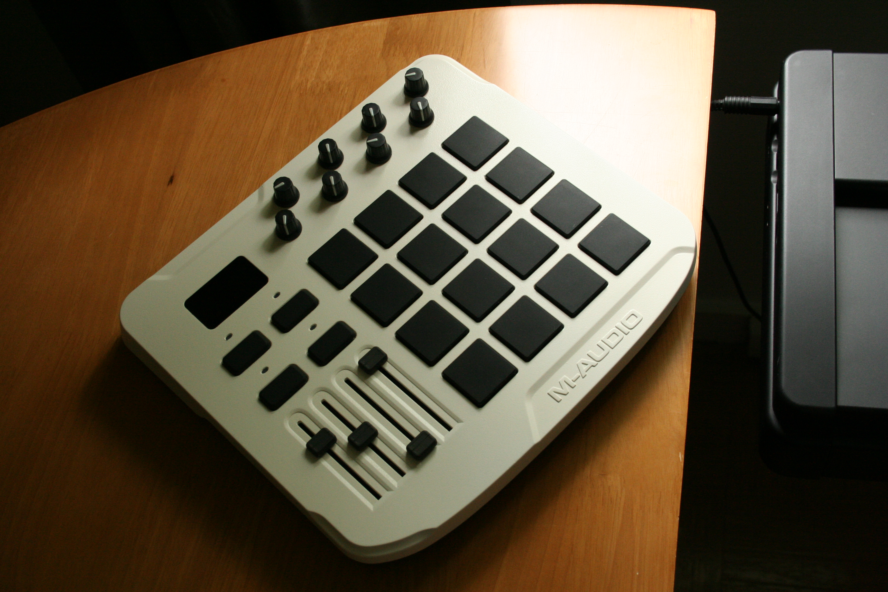 An Evolution UC-17 X-Session and an M-Audio Trigger Finger, painted cream and off-white, respectively M-Audio Trigger Finger (painted off-white)